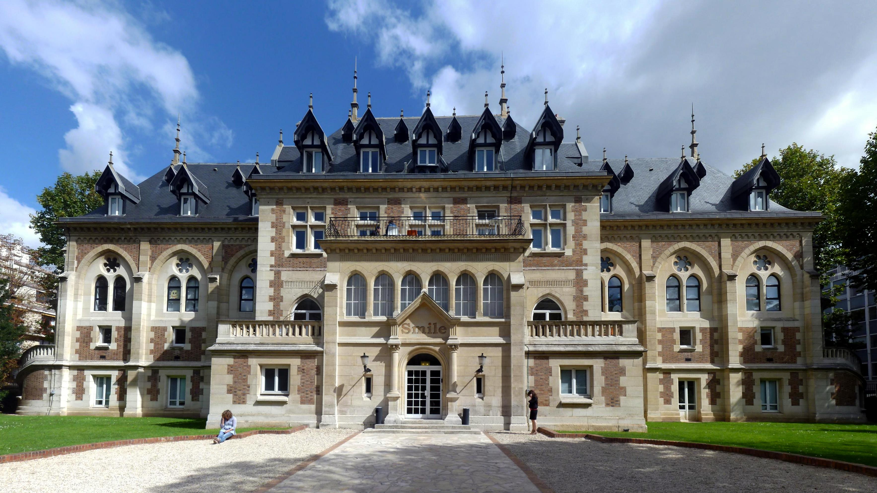 Hertford British Hospital